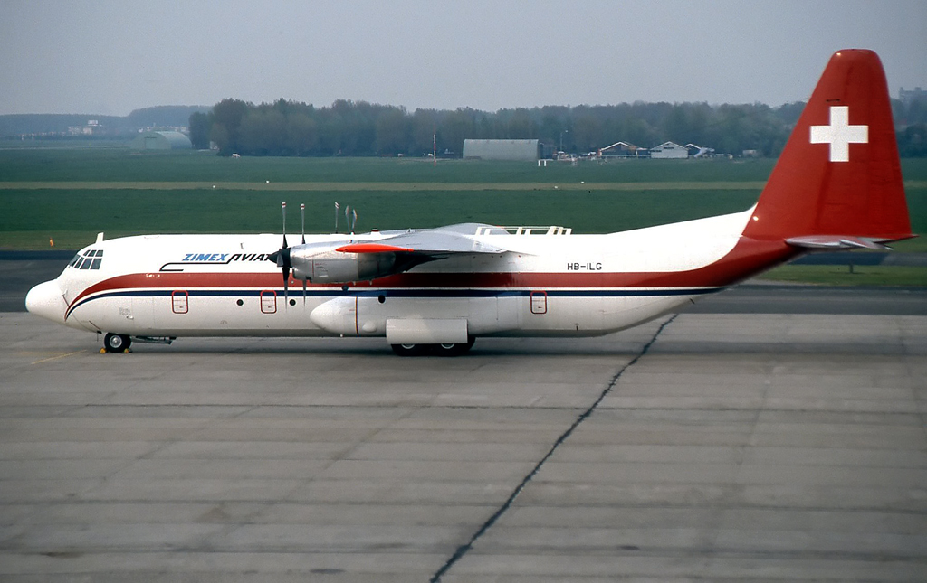 HB-ILG L100-30 Zimex Aviation 1986